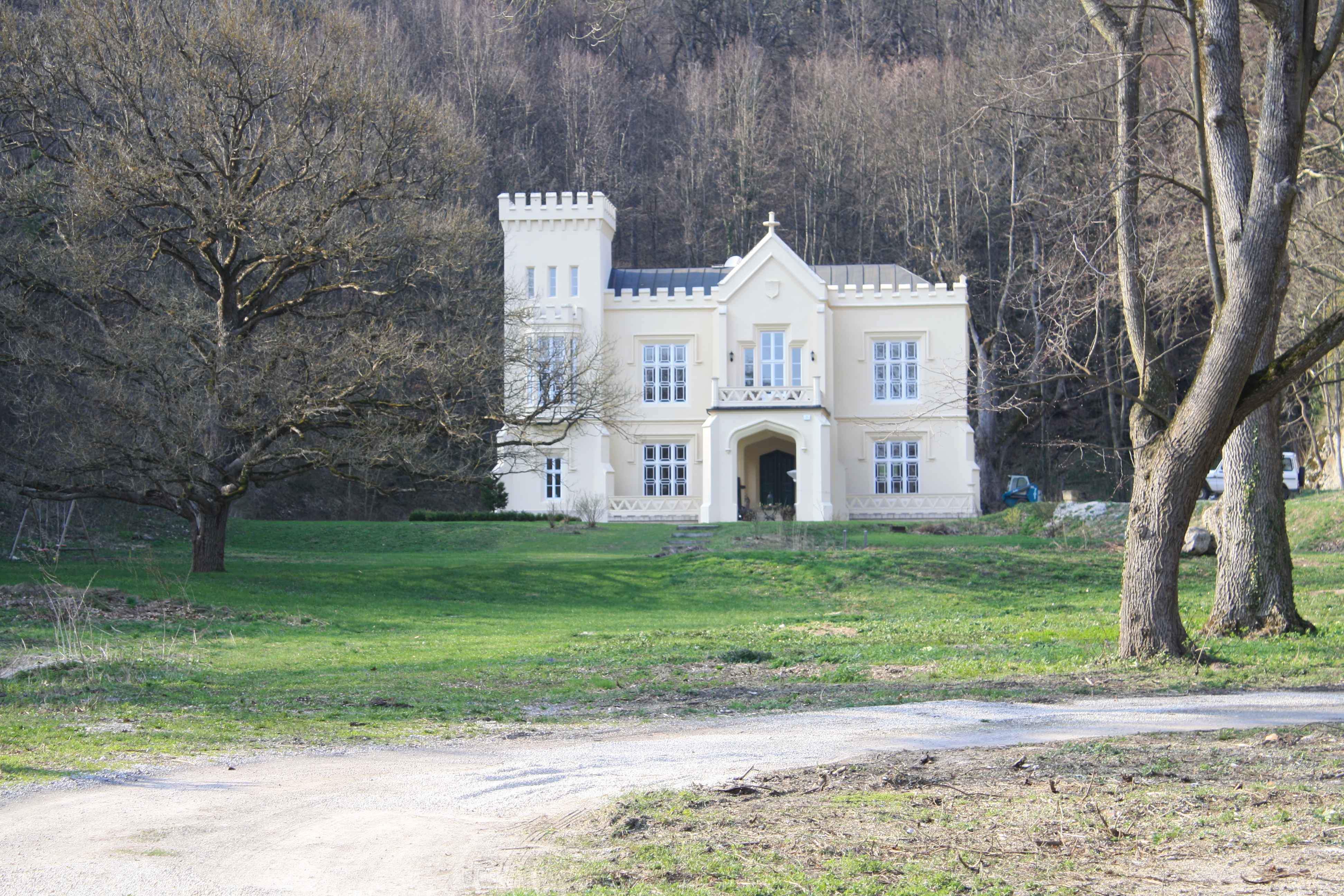 castle Merkenstein near Bad Vöslau, Lower Austria